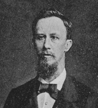 Portrait of Josef Kořán (1838-1912), Czech journalist, historian and politician. Cropped from a gallery of key personnel of Světozor magazine, published on ocassion of 20th anniversary of this magazine. "Who is who" in this gallery see "Záhlaví ku článku Fr. Chalupy" on page 624 (in Czech).